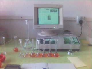 Spectrometer, in front is line of calibration solutions.